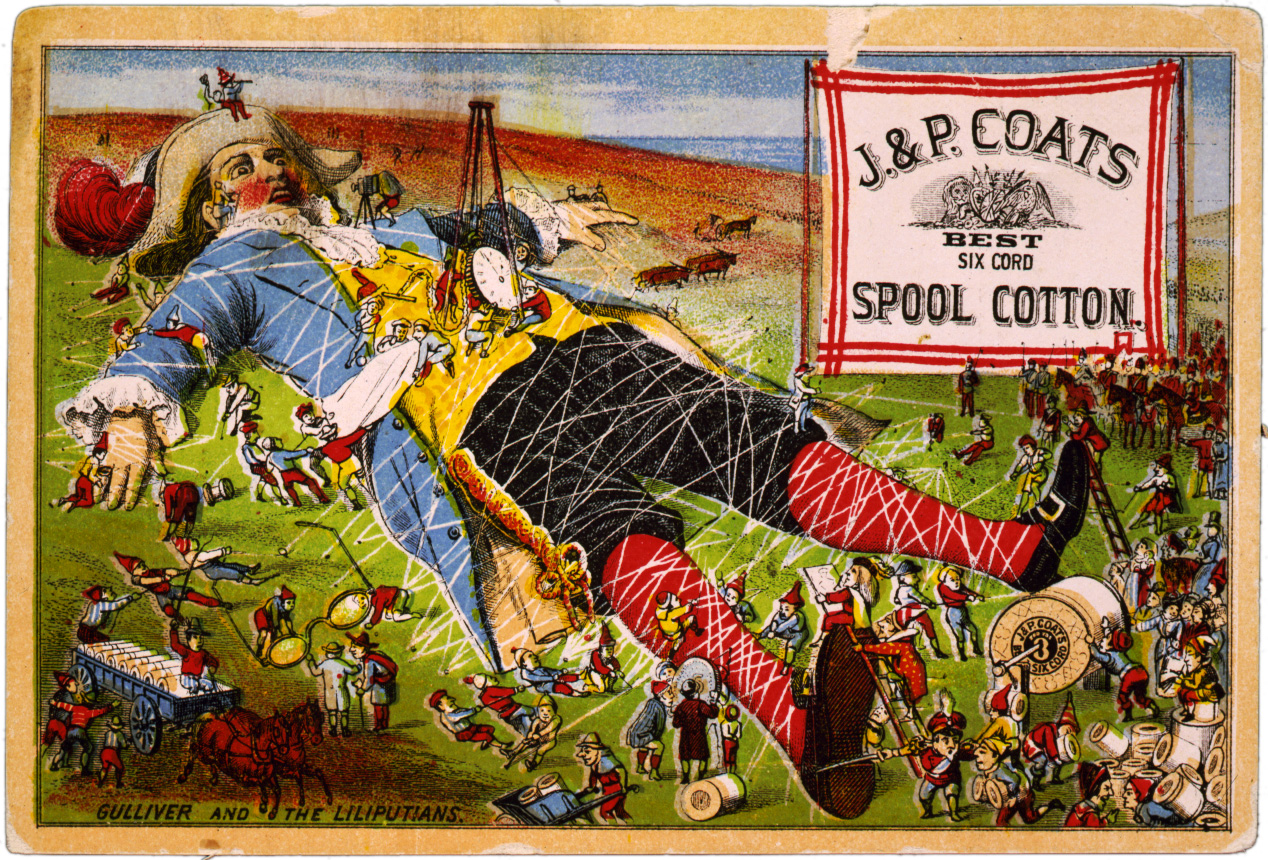 Trade card, advertising J. & P. Coats spool cotton, showing Lilliputians tying up Gulliver. 1 print : lithograph, color.